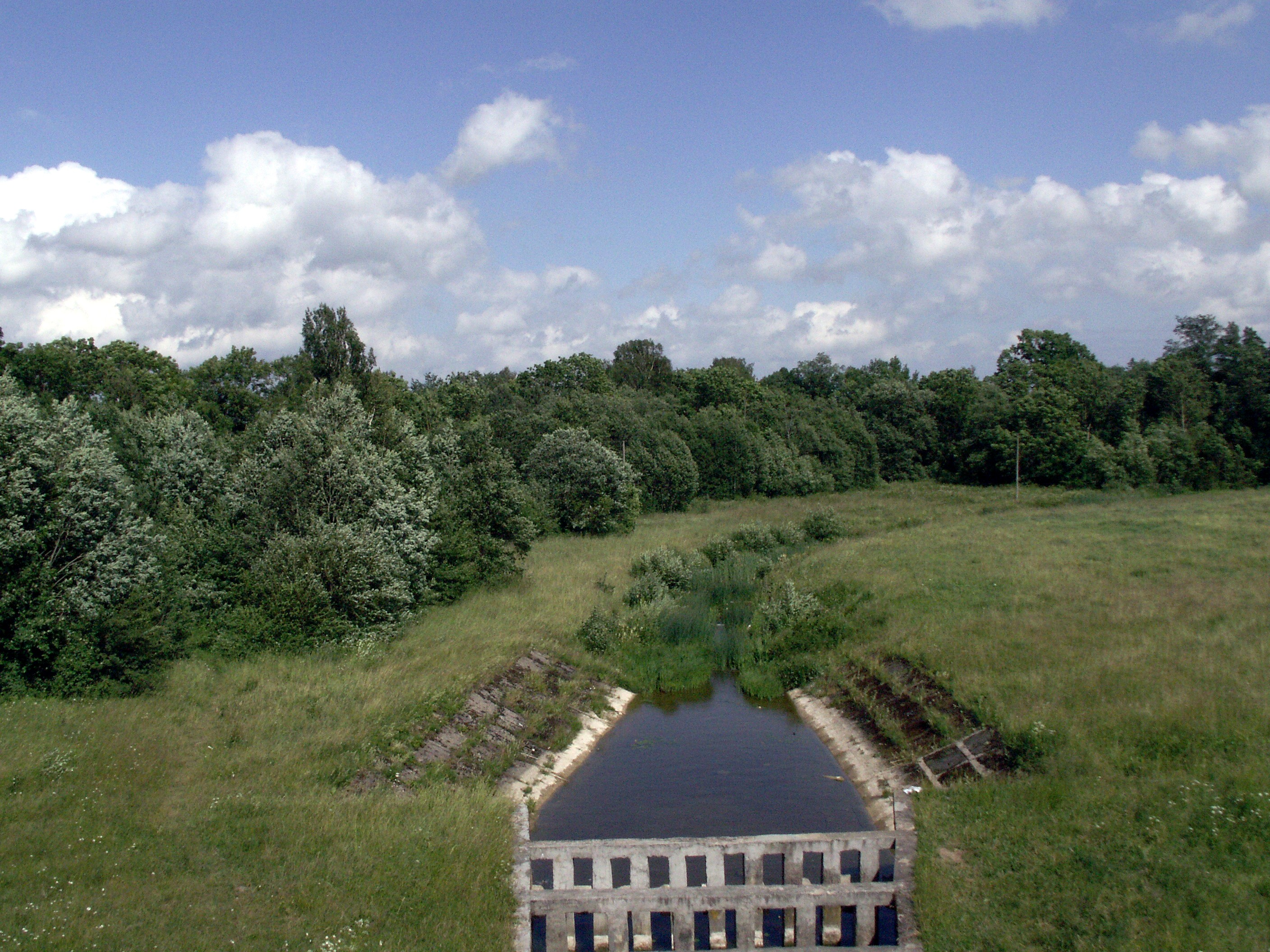 Kruoja river, Lithuania